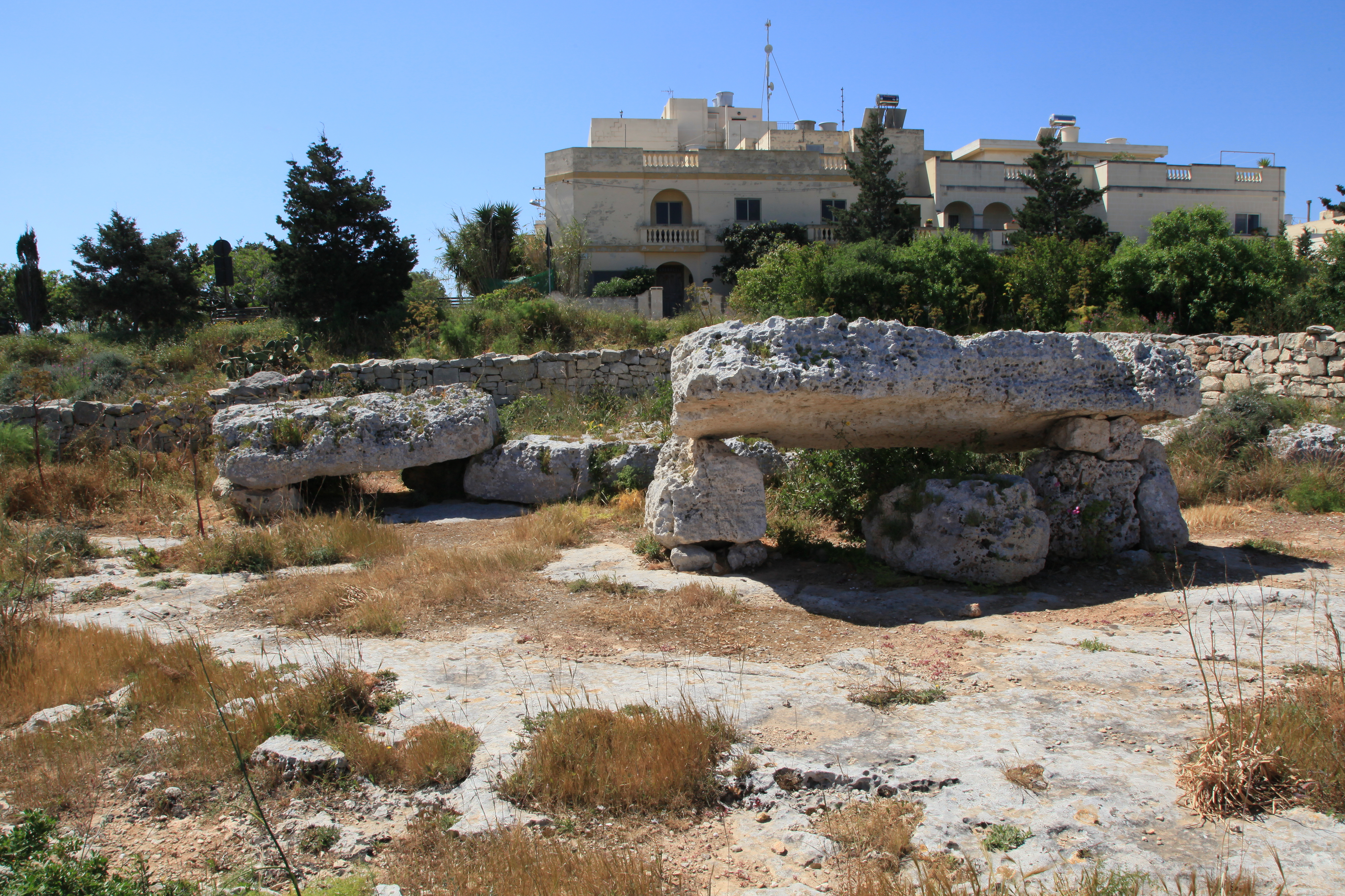 Dolmen Wied Filep A and B between Dawret il-Wied and Triq il-Fortizza tal-Mosta in Mosta, Malta